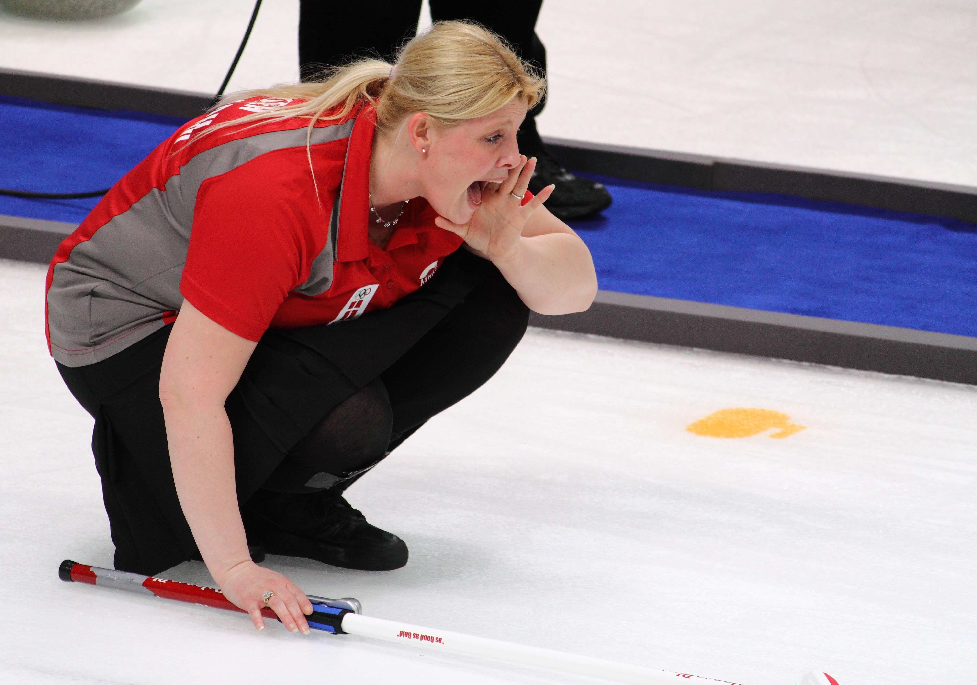 Angelina Jensen; 2010 Vancouver Olympic Games - Women's Curling - Preliminary from Vancouver Olympic Centre